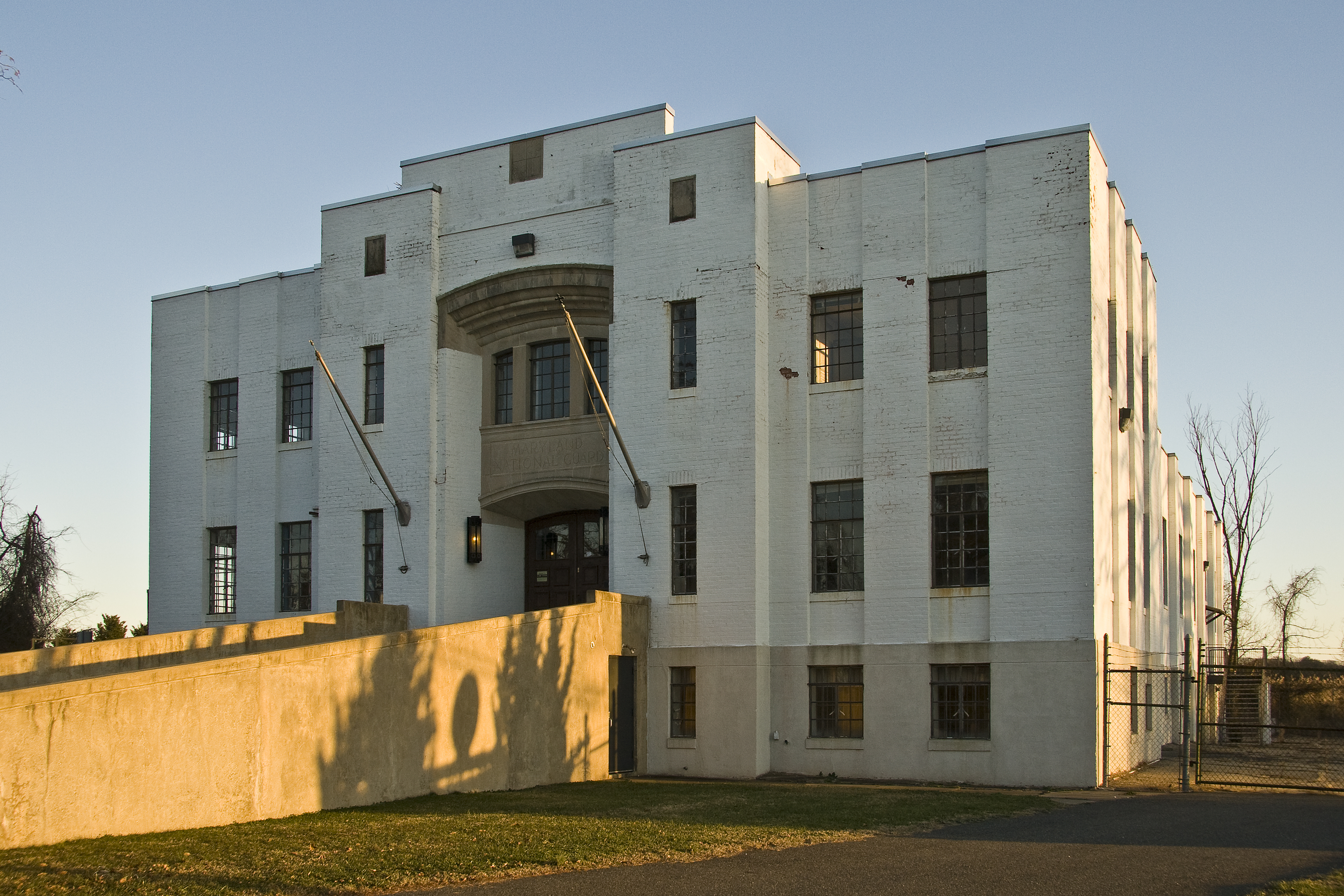 Chestertown armory, listed on the National Register of Historic Places in Chestertown, Maryland, USA